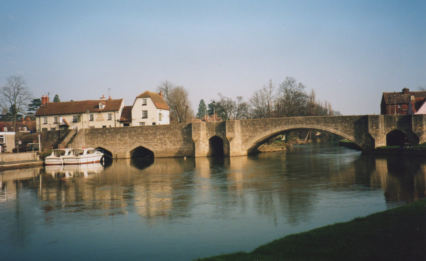 Bridge over River Thames in Abingdon